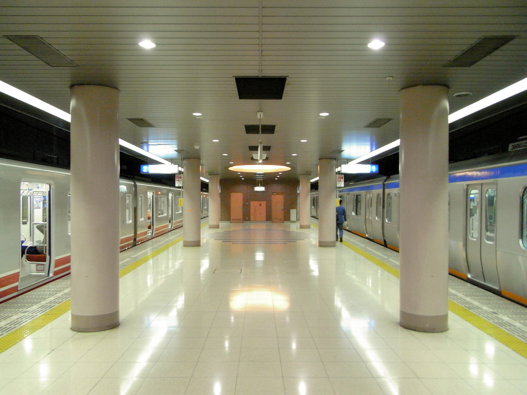 Sagami railway is one of the major private railway company of Japan. Shonandai is the terminal station of Izumino line, the platform exists on the third floor of underground.